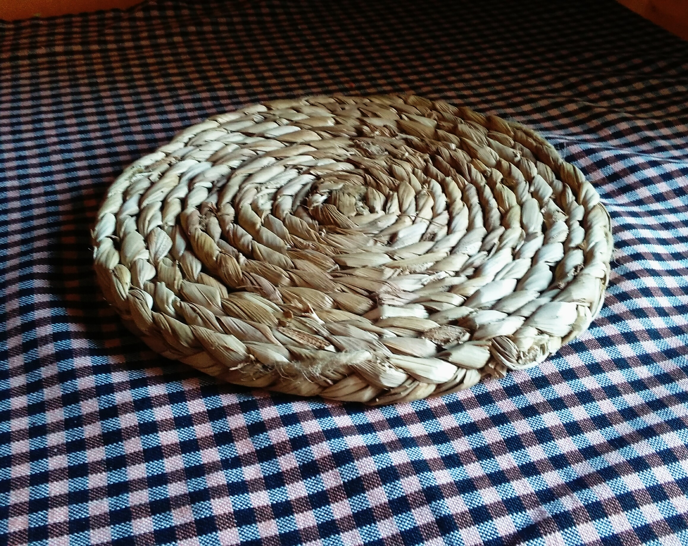 A trivot made of braided fibers on a tablecloth.